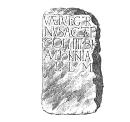 Roman Sandstonealtar to Minerva from AD 213-222, deticated Julius Gr[…]nus, actarius of the Fourth Cohort of Breuci, found between 1699 and 1727 at Ebchester/Vindomora (GB). Formerly in the Chapter Library, Durham, now in the Museum of Archaeology, Durham.